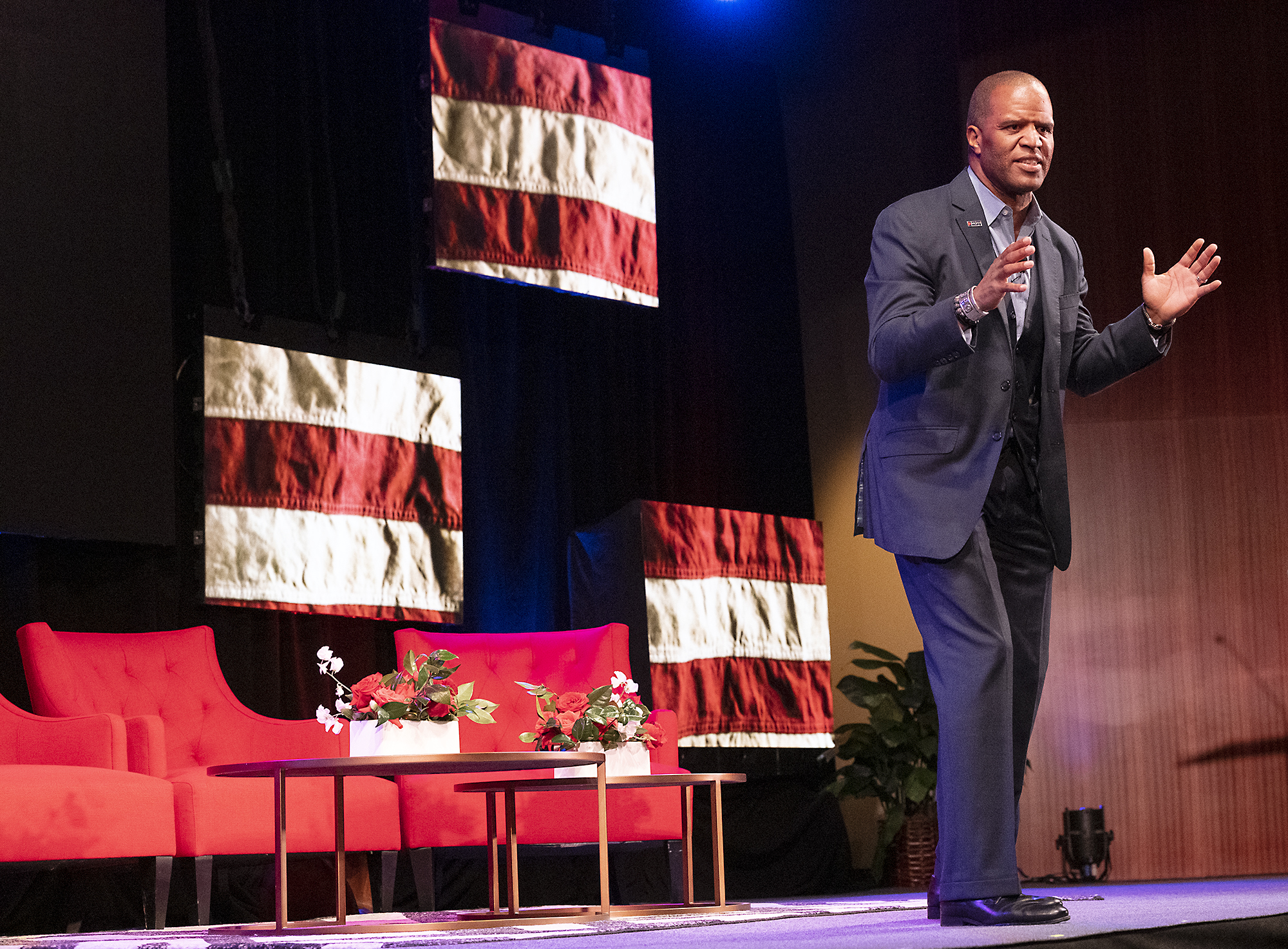 John Hope Bryant, the founder, chairman, and CEO of the nonprofit Operation HOPE, speaks about financial empowerment at The Summit on Race in America at the LBJ Presidential Library in Austin on Wednesday, April 10, 2019. Operation HOPE works to expand the free enterprise system to include all people.